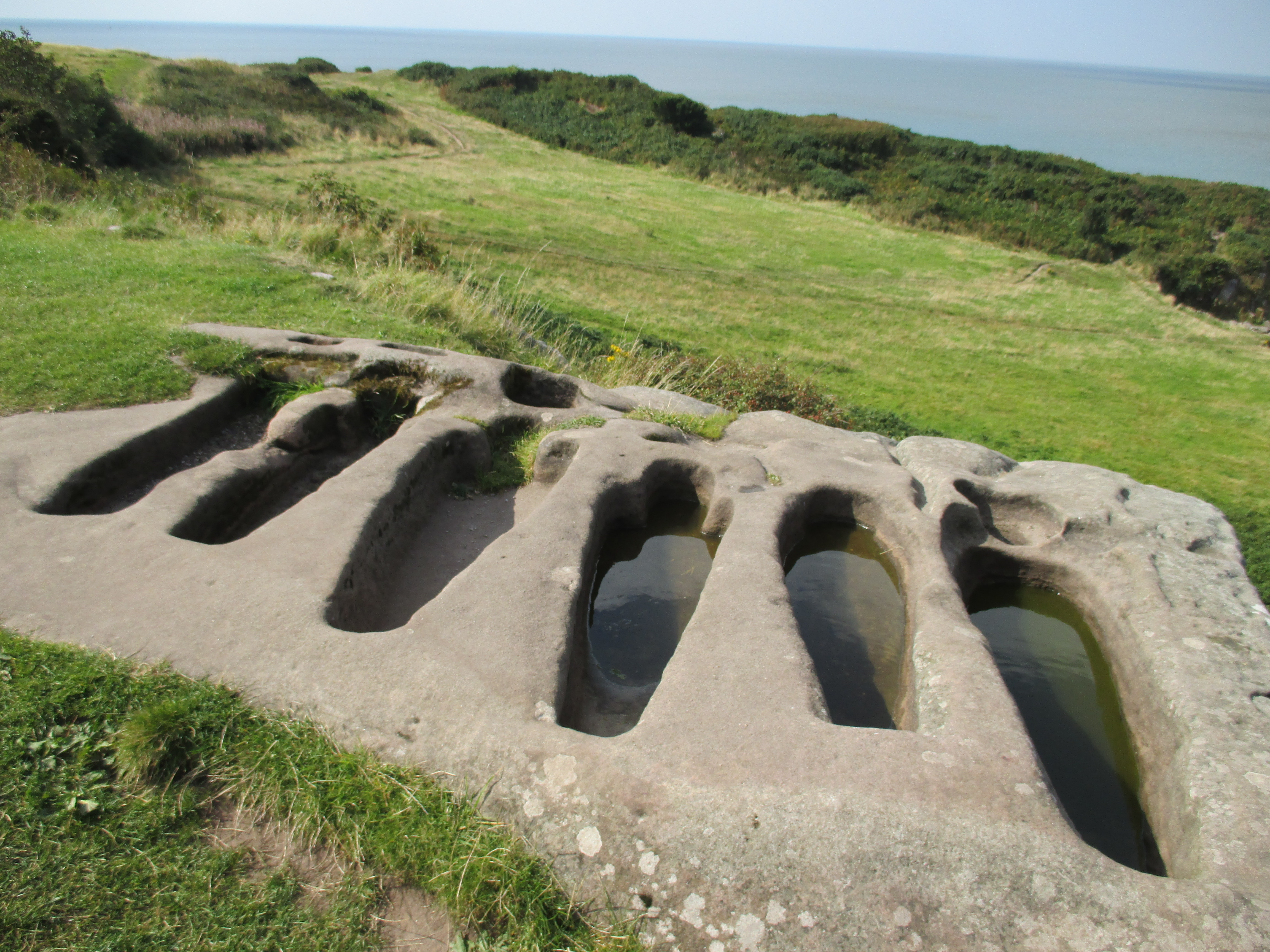 Group of medieval rock-cut tombs at St. Patrick's Chapel, Heysham, Lancashire.